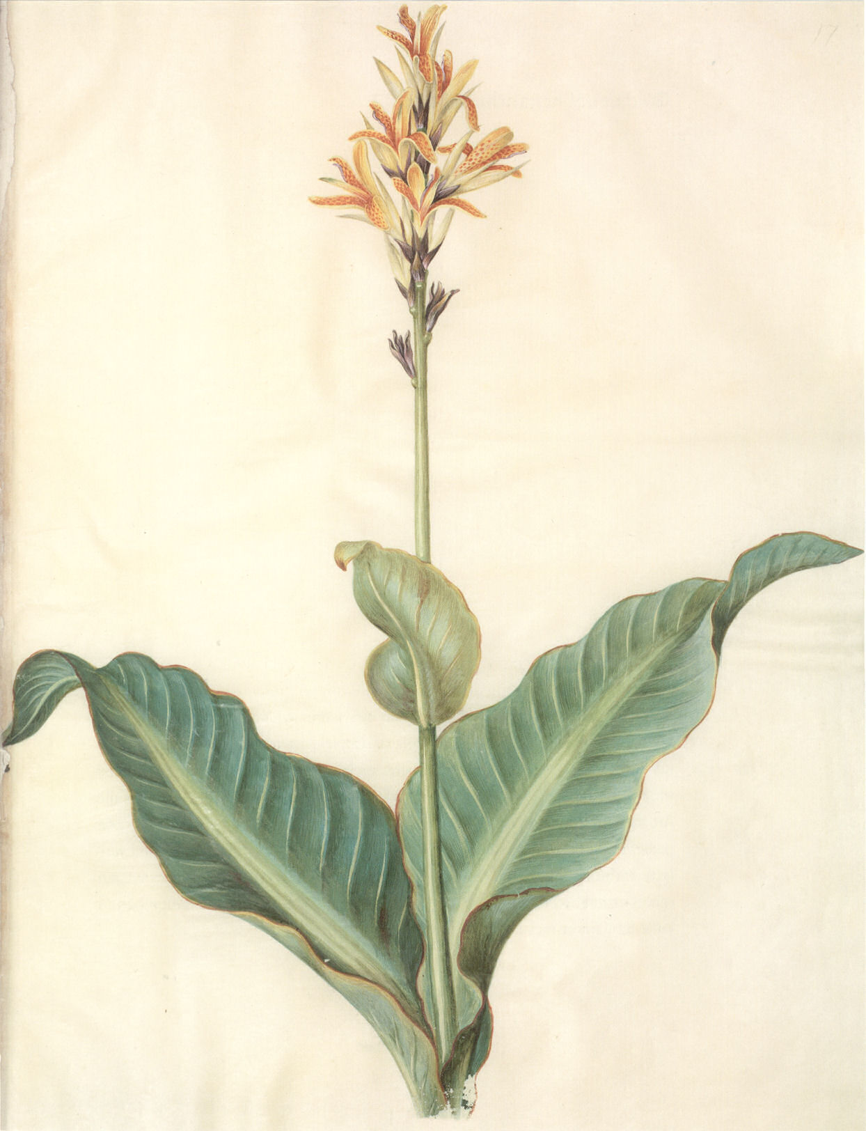 Canna indica, gouache on vellum, in: Gottorfer Codex